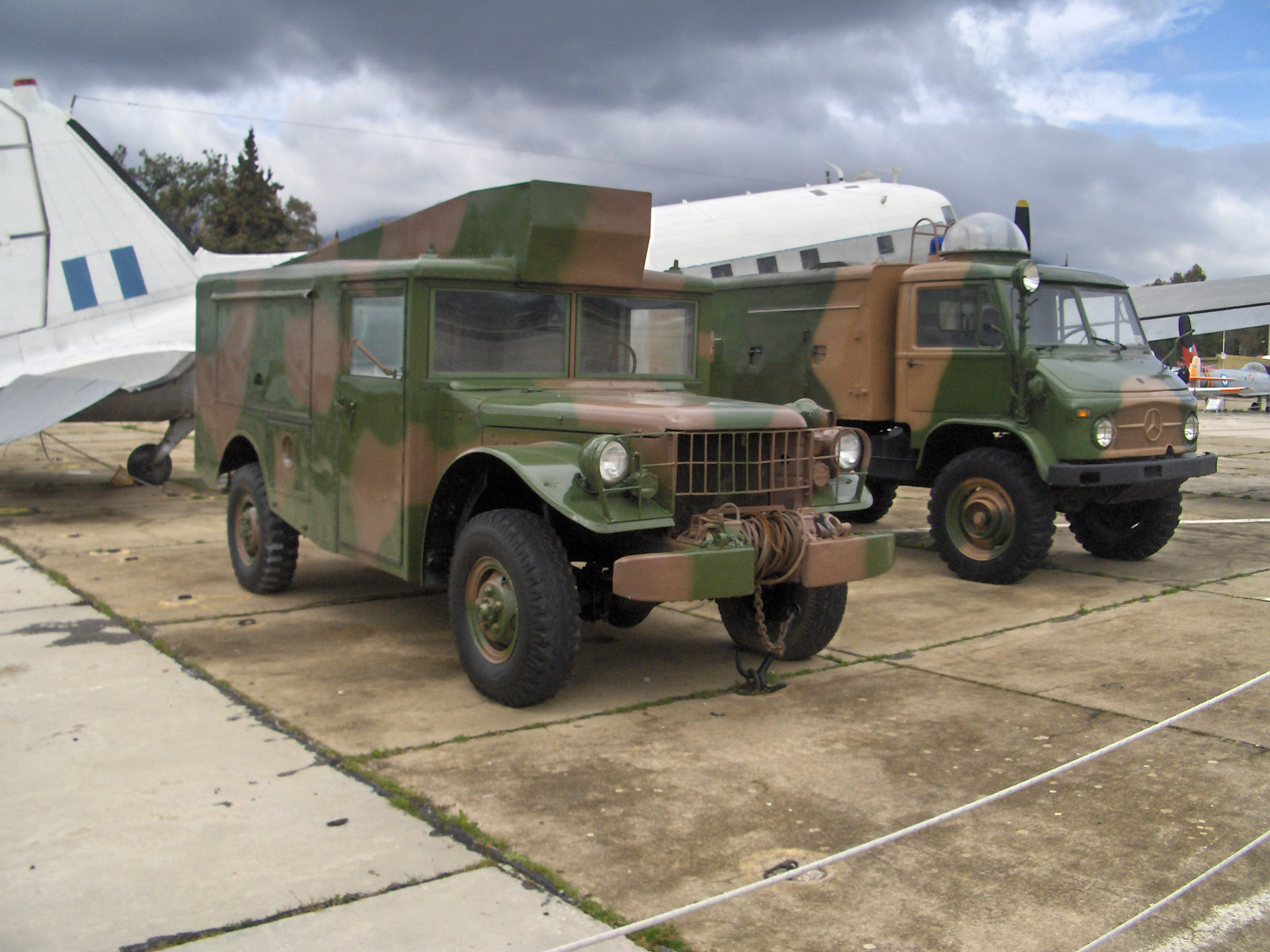 Dodge R2 and Unimog 404 at the Hellenic Air Force Museum at Dekelia (Tatoi), Athens, Greece